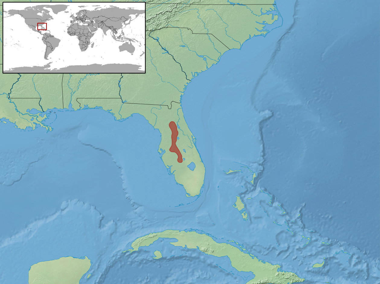 geographic distribution of Plestiodon reynoldsi syn Neoseps reynoldsi (Native: United States (Florida))